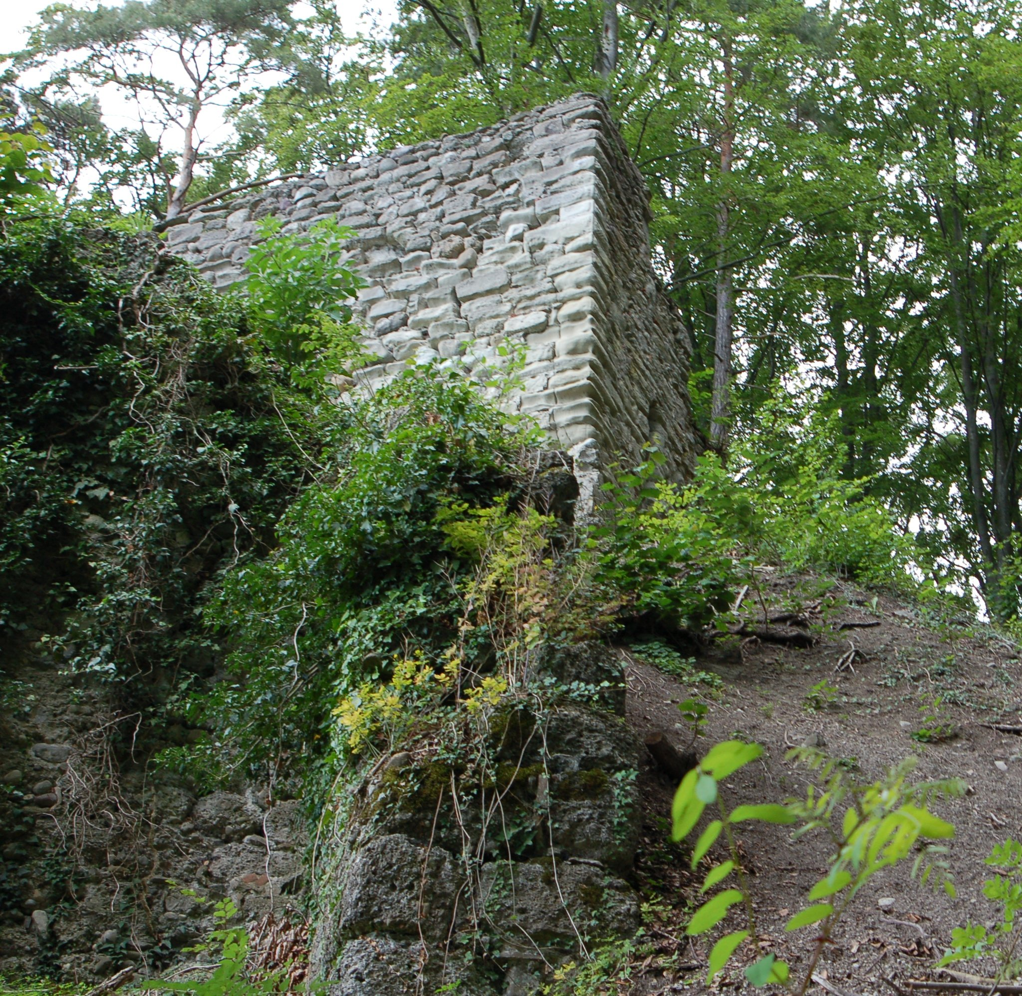 The ruins of the castle Hohenfels near Sipplingen at the Lake of Constance